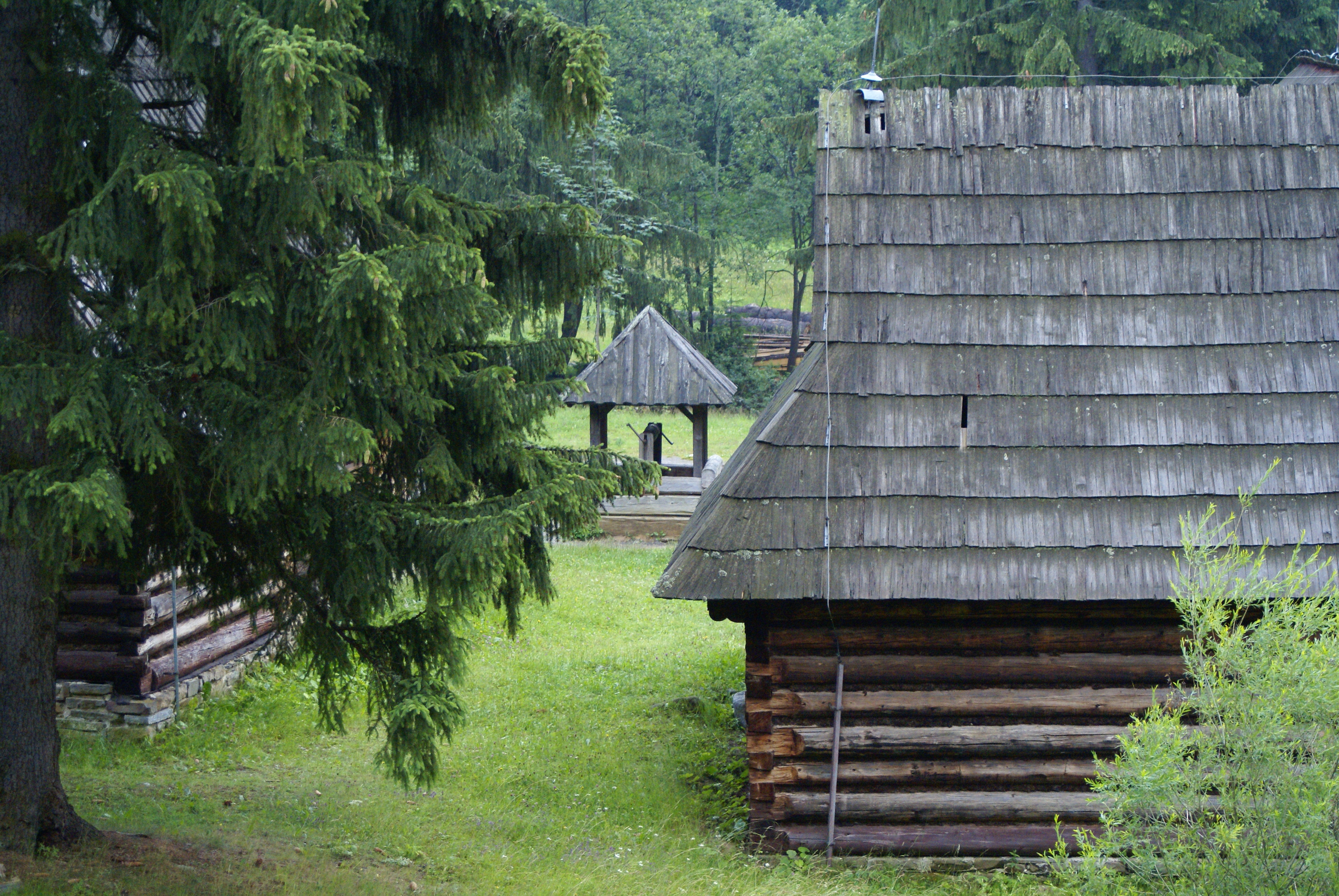 Open air museum of typical slovakian old Orava village, Zuberec, West Tatras, Slovak Republic